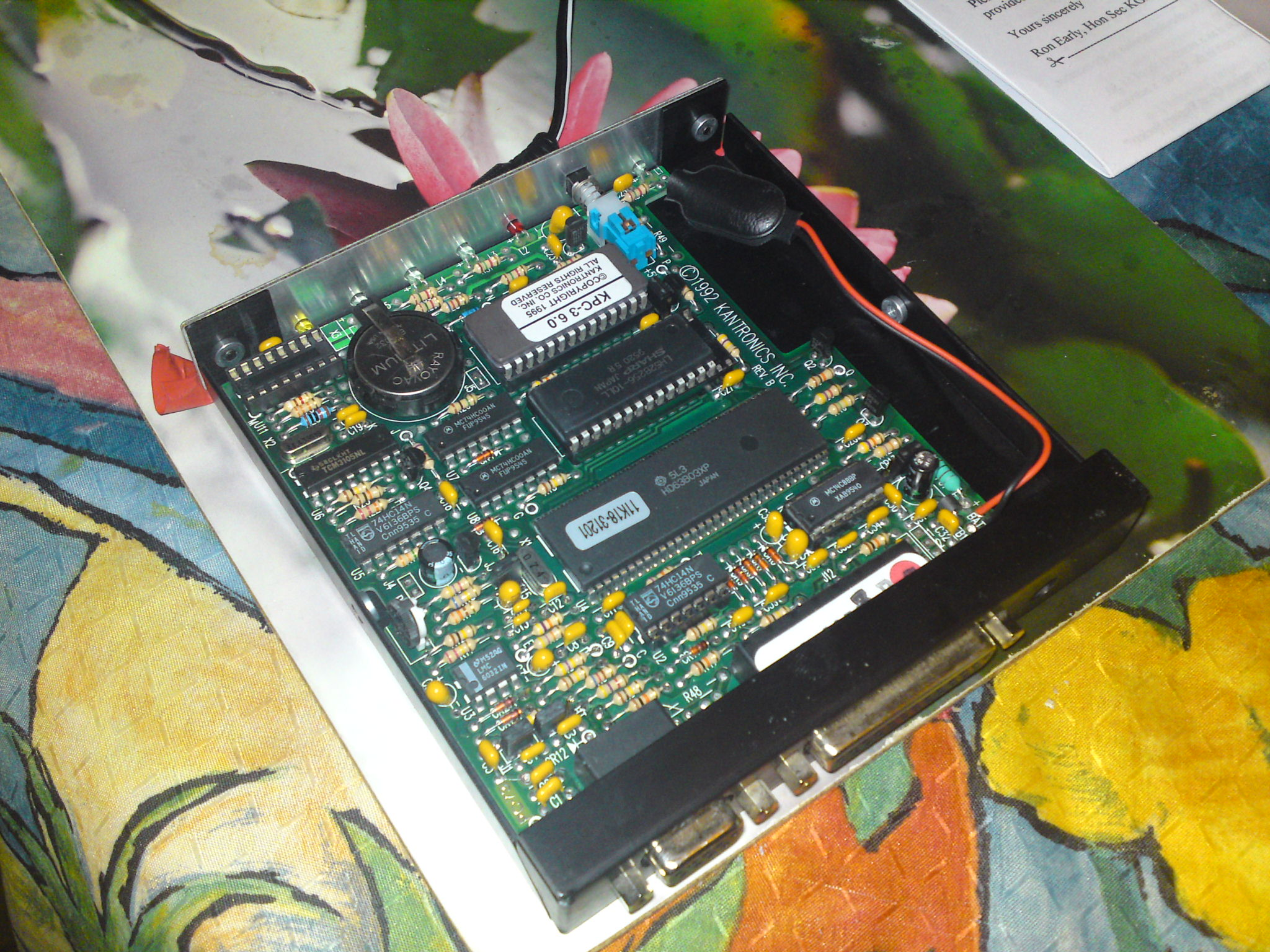 Inside the Kantronics KPC-3 Terminal Node Controller